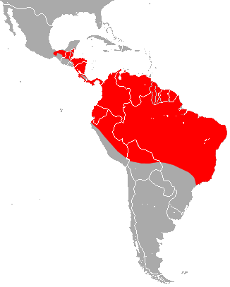 Greater Dog-like Bat (Peropteryx kappleri) range